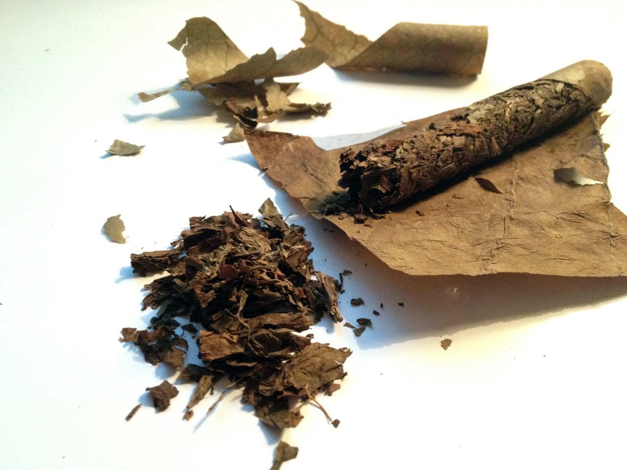 Short filler cigar Balmoral sumatra